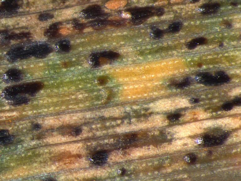 Rust (Symptoms) Puccinia hordei G.H. Otth Teliospore stage symptoms of wheat rust on wheat leaves. Image location: Louisiana, United States